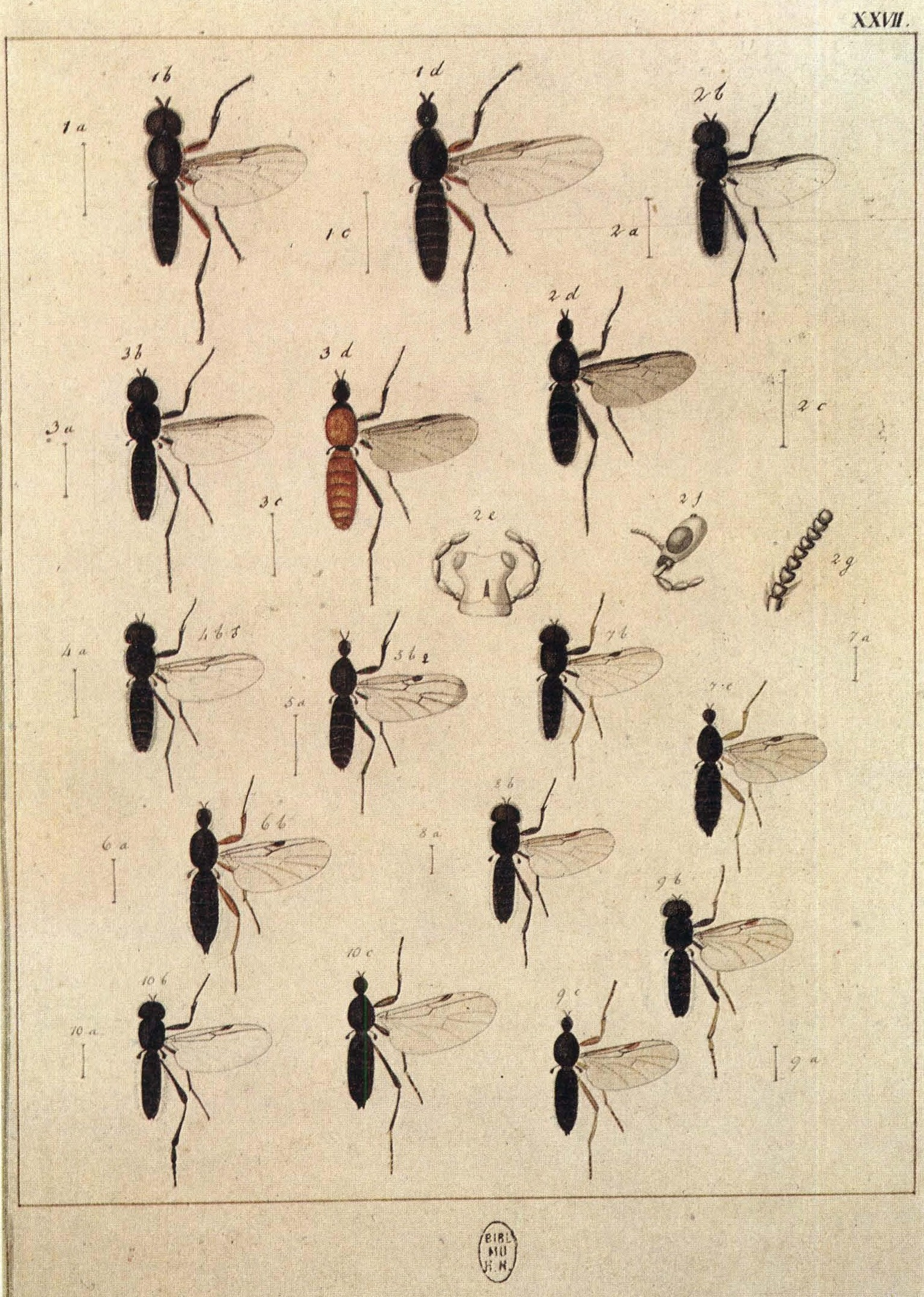 Johann Wilhelm Meigen, 1790 Abbildung der europäischen zweiflügeligen Insekten nach der Natur Von Joh. Wilh. Meigen zu Stolberg bei Aachen 1 Taf XXVII text here [Valid names and synonyms at Catalogue of Life (Annual Checklist) and and Nomenclator.Types at MNHN collections database Note Europäischen Zweiflügeligen includes species described by previous authors - Linnaeus, Wiedemann, Fabricius, Scopoli, Forster, Rossi, Macquart, Robert etc.